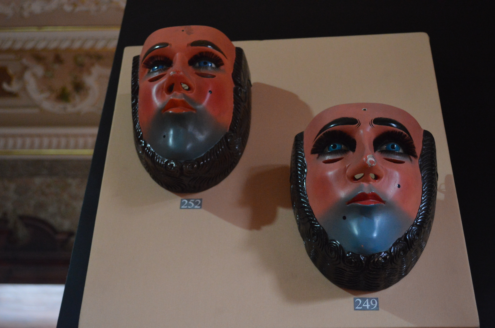 Masks for the Dance of the Parachicos in Chiaps at the Museo Nacional de la Máscara, San Luis Potosí